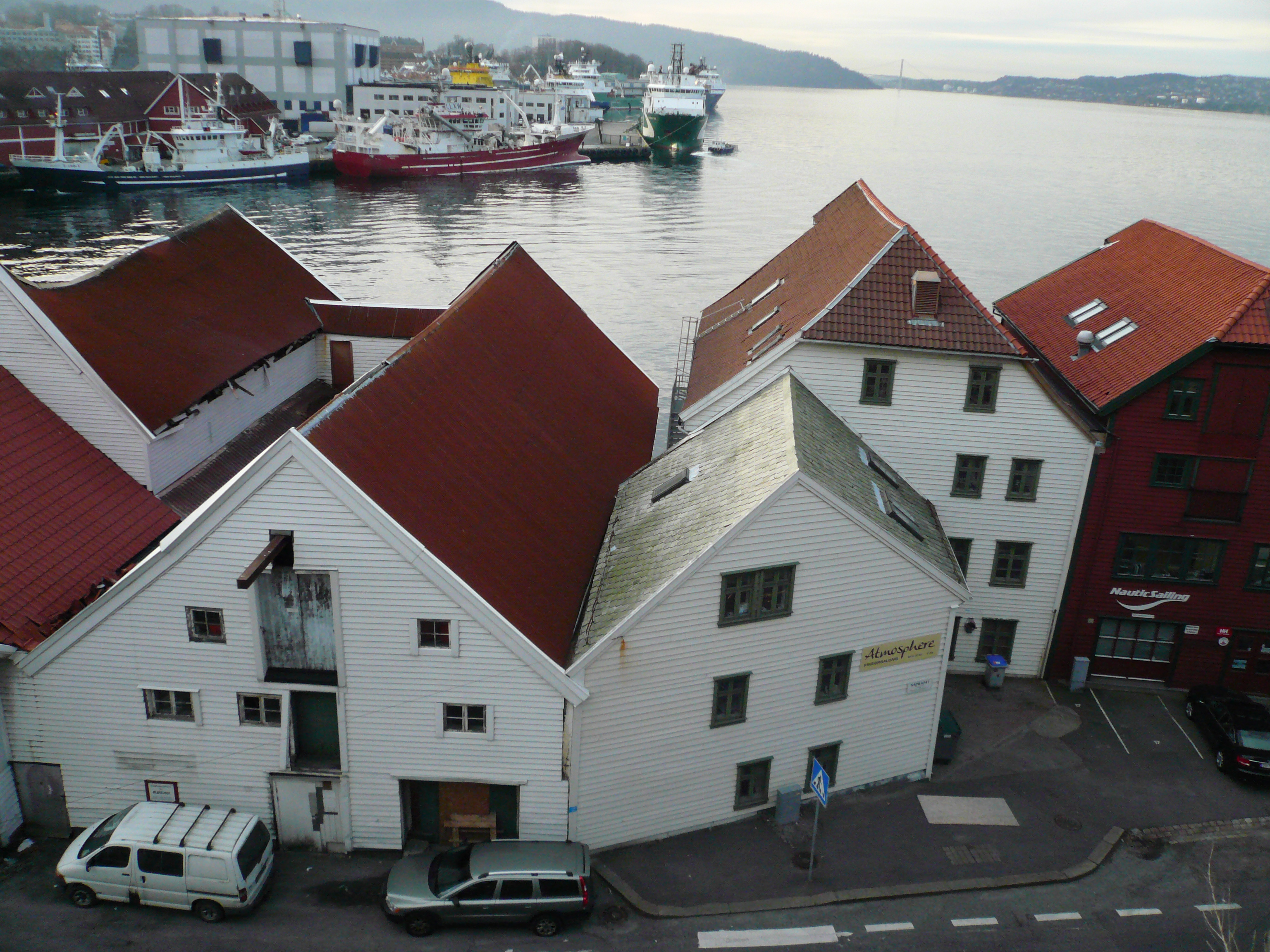 Skuteviksboder 14-17.jpg